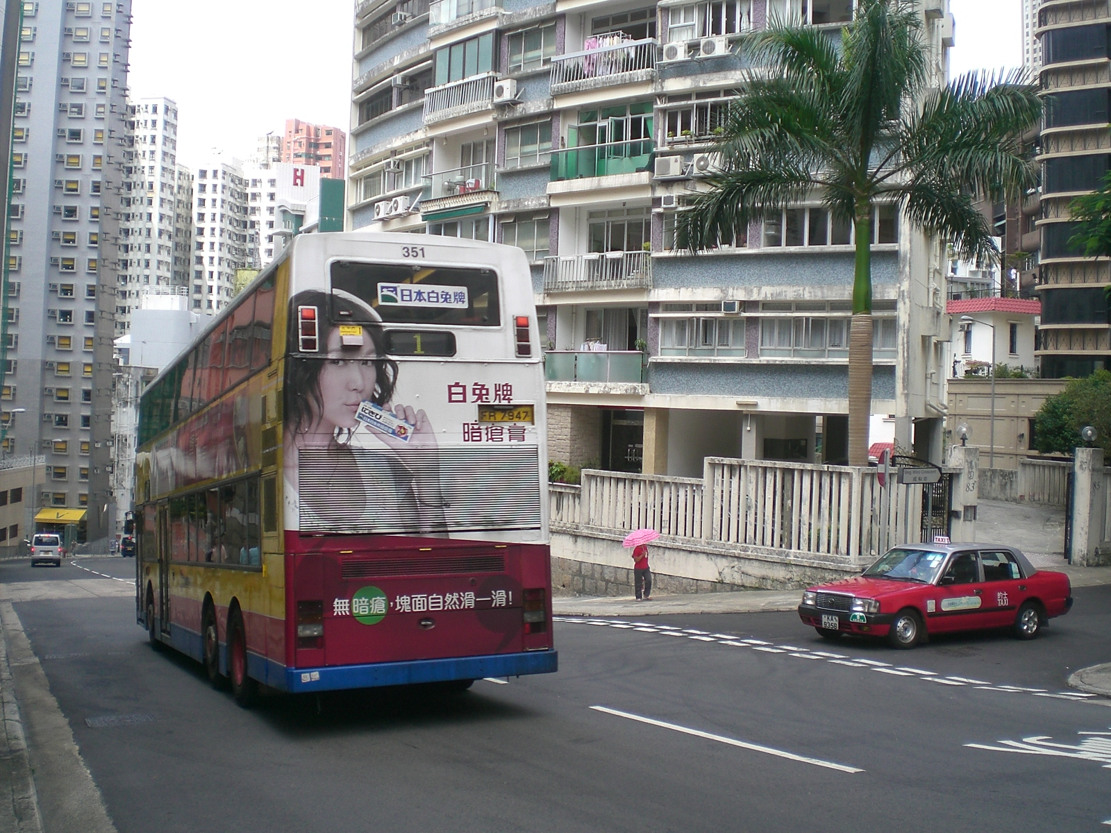 Shing Woo Road, Happy Valley, Hong Kong